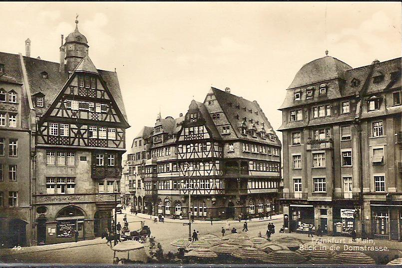 Frankfurt on the Main: view of the intersection of Domstraße (Cathedral street) and Braubachstraße (Braubach street) with historicising half-timbered buildings, to the very left the Haus zur Maus (House of the Mouse), in the middle the Domrestaurant (Cathedral restaurant)